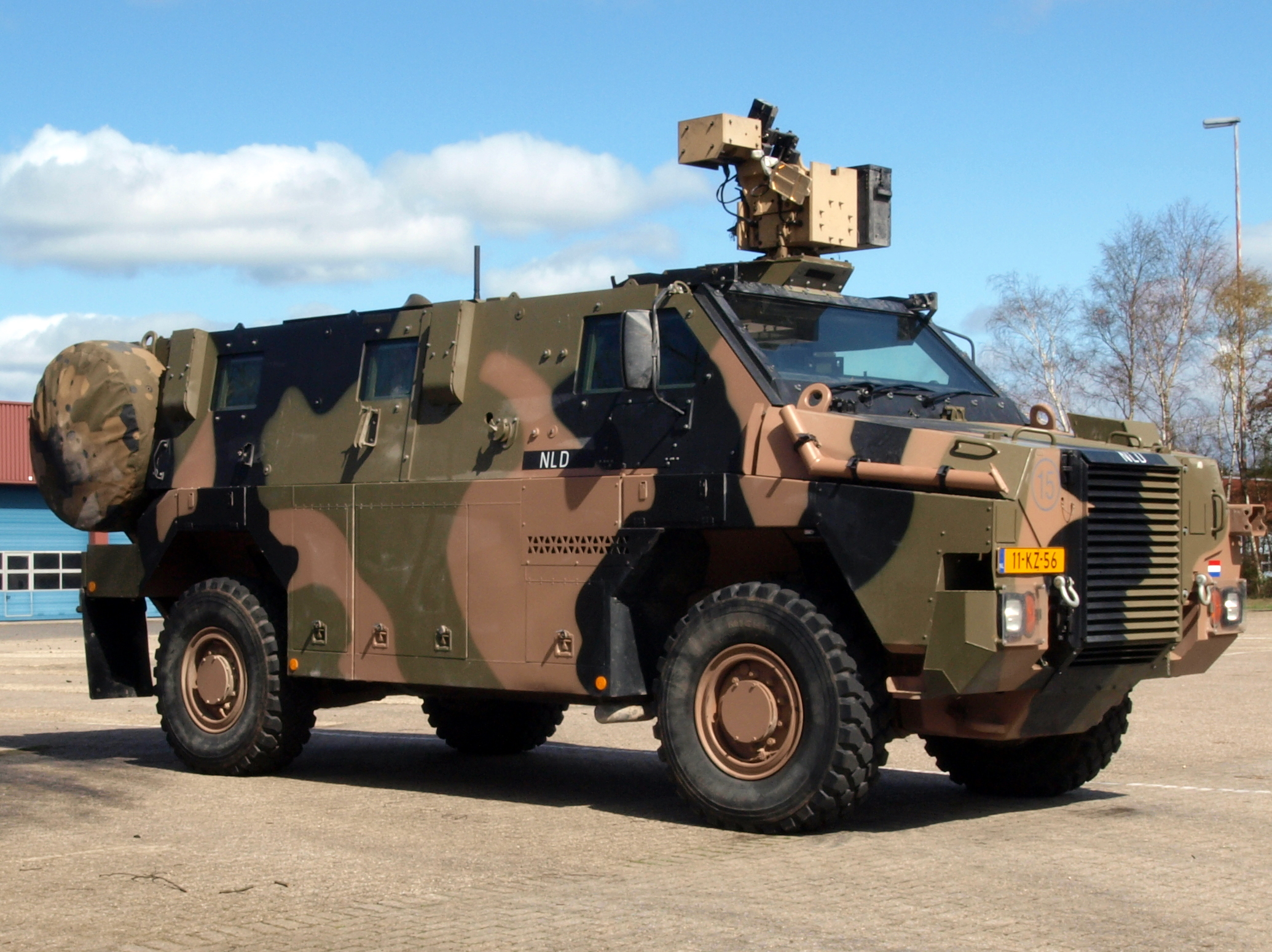 Royal Netherlands Army Bushmaster APV, VAU 12kN 4X4 ADI-THALES Bushmaster NLD at Amersfoort, The Netherlands.